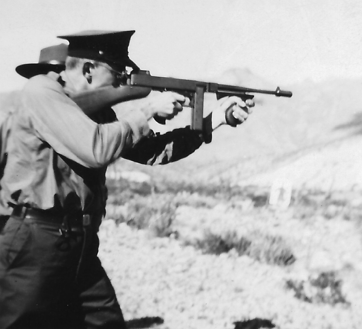 United States Border Patrol practice firing a Thompson submachinegun at El Paso, Texas, in 1940.